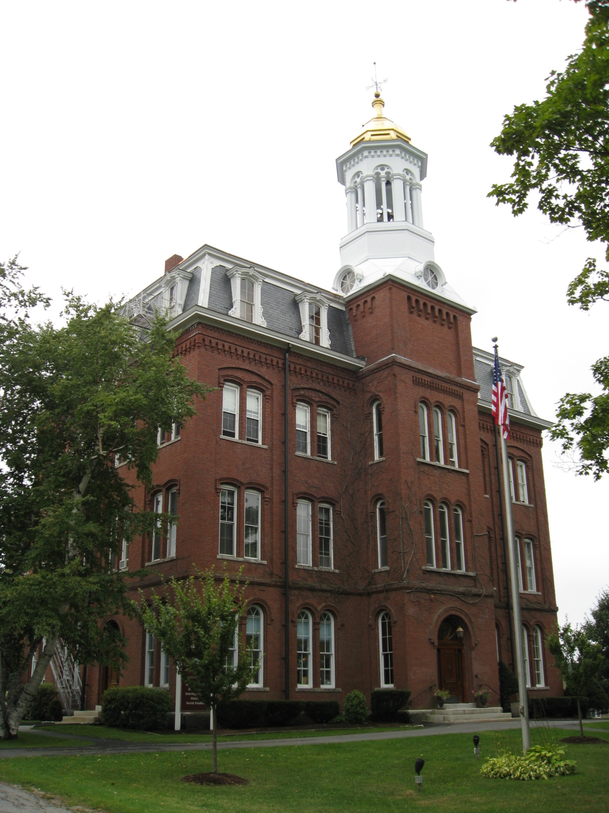 Main building of Kents Hill school in Maine